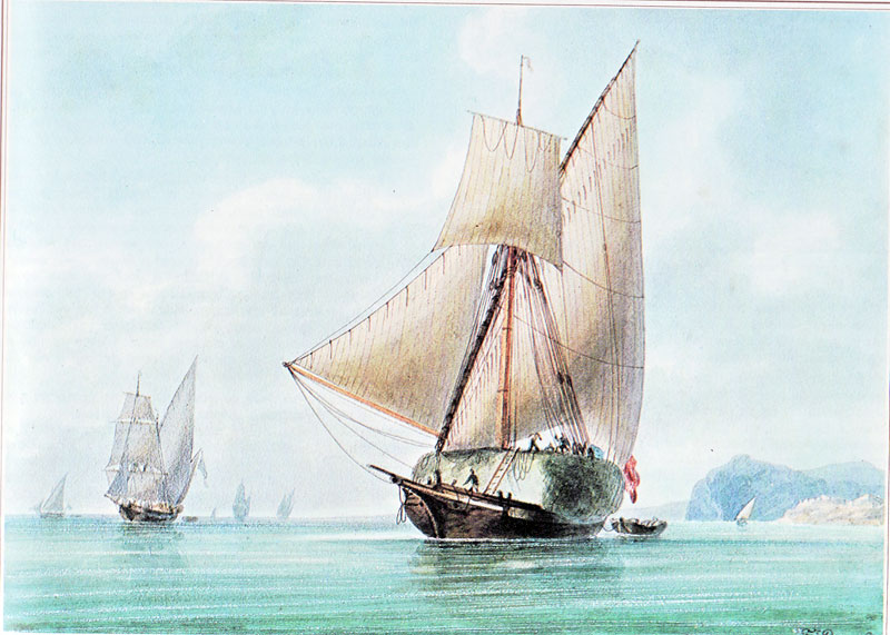 Frederic Roux. Allege (A lighter used to lighten ships in a roadstead)